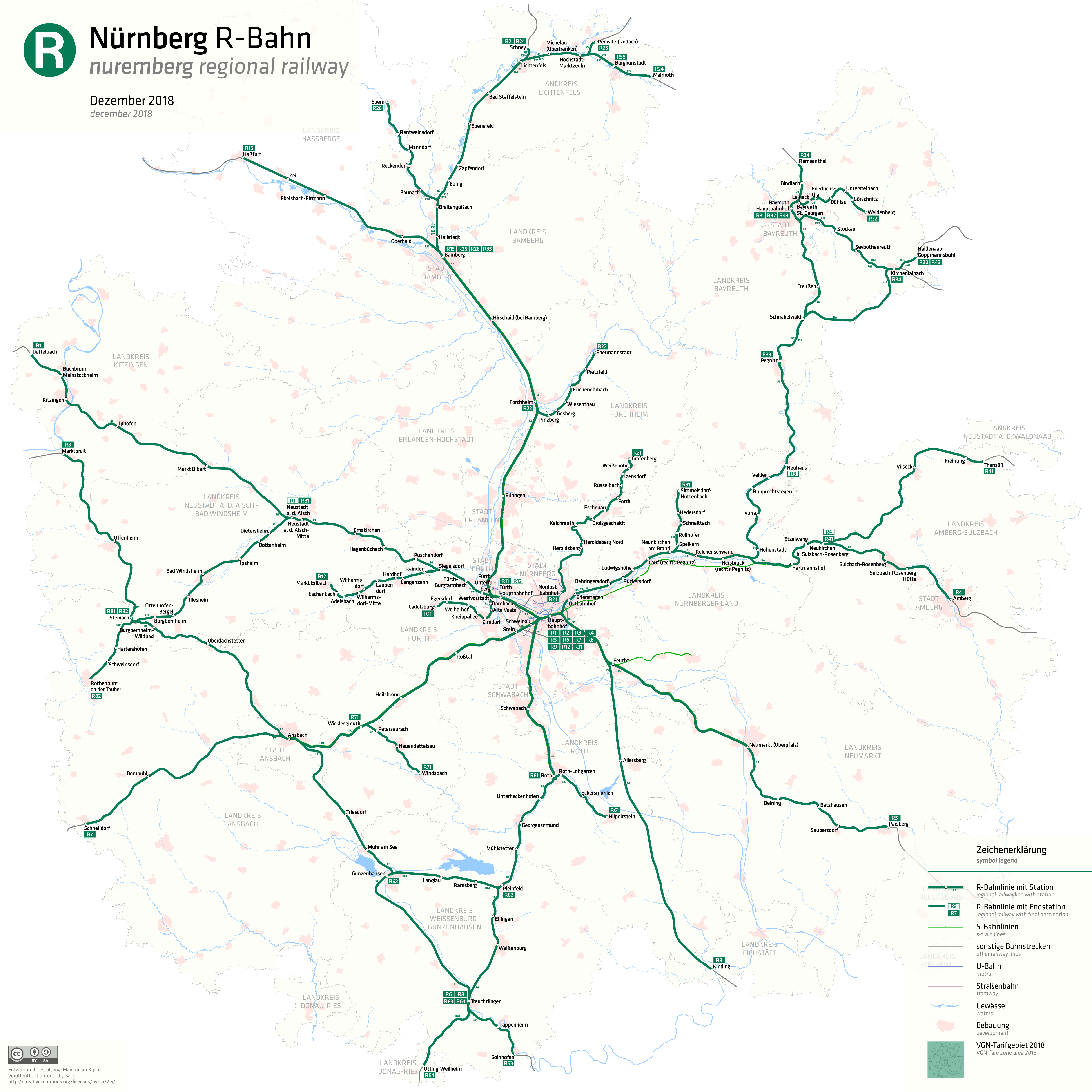 Map of the regional railway network in nuremberg